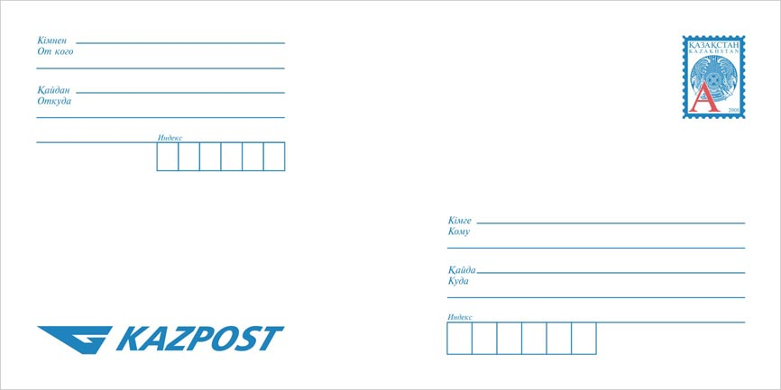 Stamp of Kazakhstan